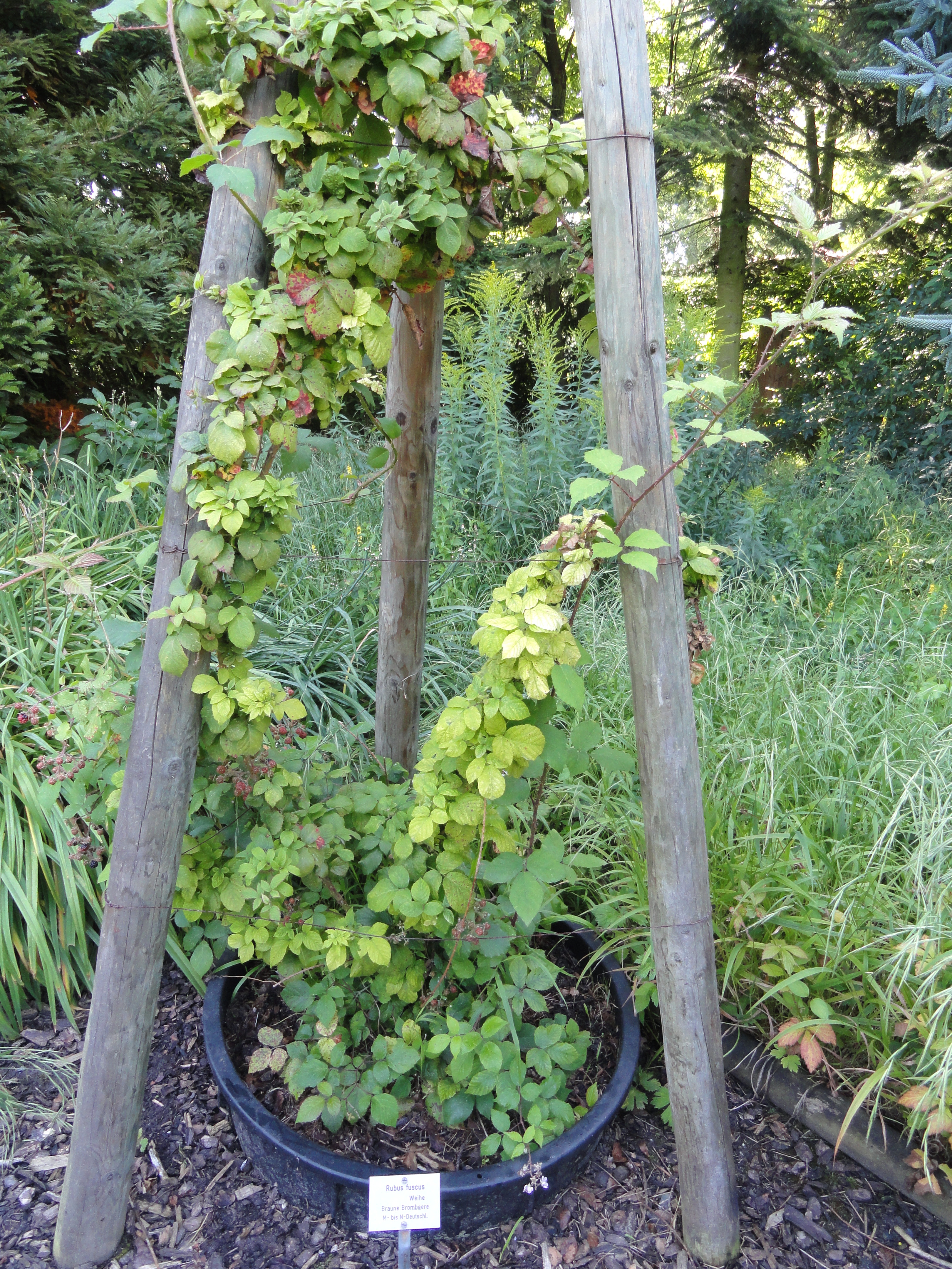 Botanical specimen in the Botanischer Garten, Frankfurt am Main, located at Siesmayerstraße 72, Frankfurt am Main, Germany.